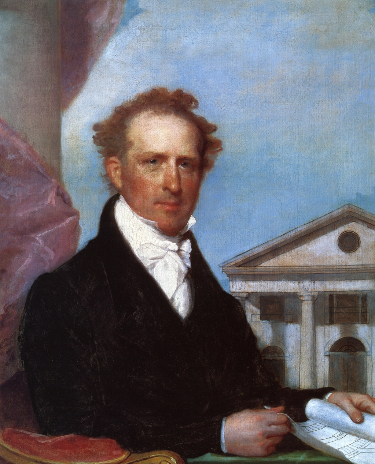 "Josiah Quincy," oil on canvas, by the American Gilbert Stuart. Courtesy of the Museum of Fine Arts, Boston.